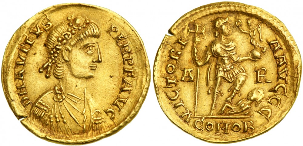 Avitus, AD 455-456. Gold Solidus (4.47g). Minted at Arles July 9, AD 455 - October 17, AD 456. West Roman Empire. D N AVITVS PER P F AVG. Rosette-diademed, draped, and cuirassed bust of Avitus right. Reverse: VICTORI-A AVGGG. Emperor in military attire standing right, holding long cross in right hand and Victoria (Victory) on globe in left, resting left foot on recumbent captive; A-R in field; COMOB in exergue. RIC 2401; Lacam pl. 9, 16 (this coin) ; Depeyrot 24/1.